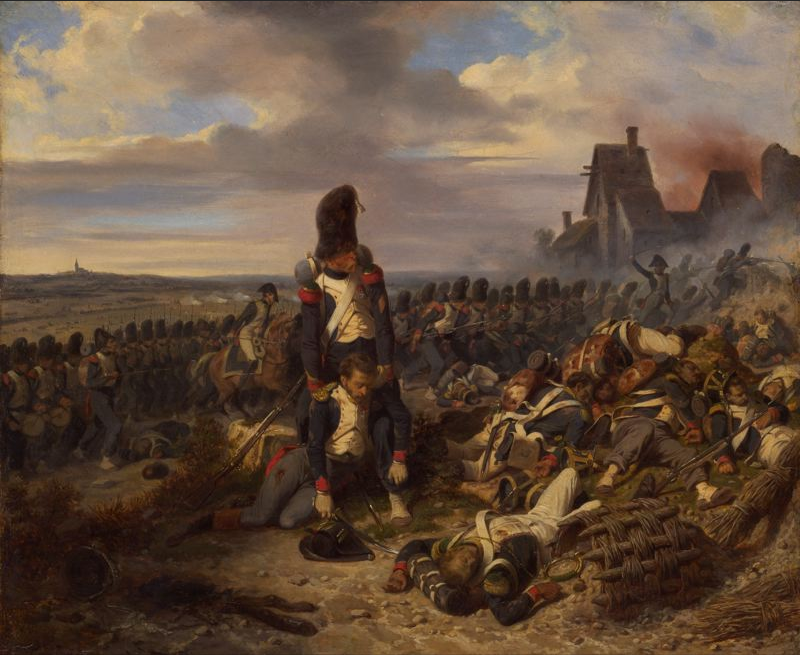 Hippolyte Bellangé, battle Scene (1825) depicting French chasseurs of the Imperial Guard